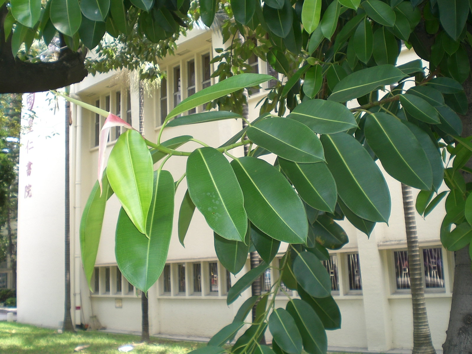 皇仁書院